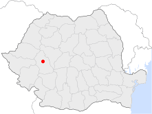 Location of Deva in Romania.